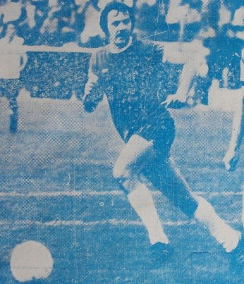 Alexandru Gergely in 1977.